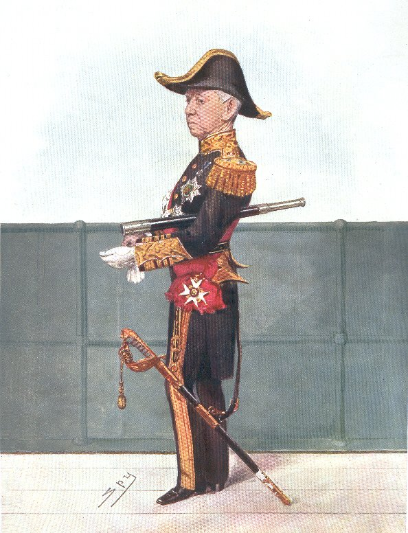 Caricature of Admiral Compton Edward Domvile. Caption read "40 HP in a dingy".